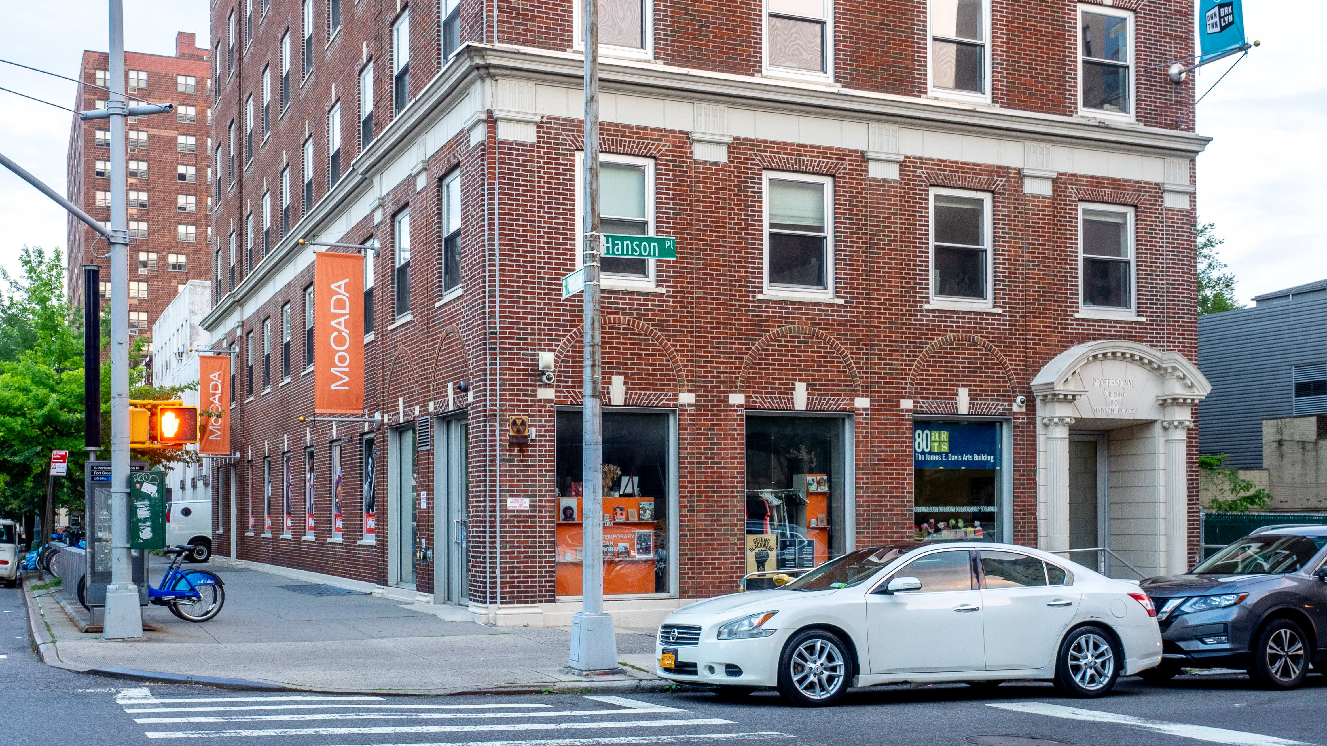 Fort Greene, Brooklyn, New York City